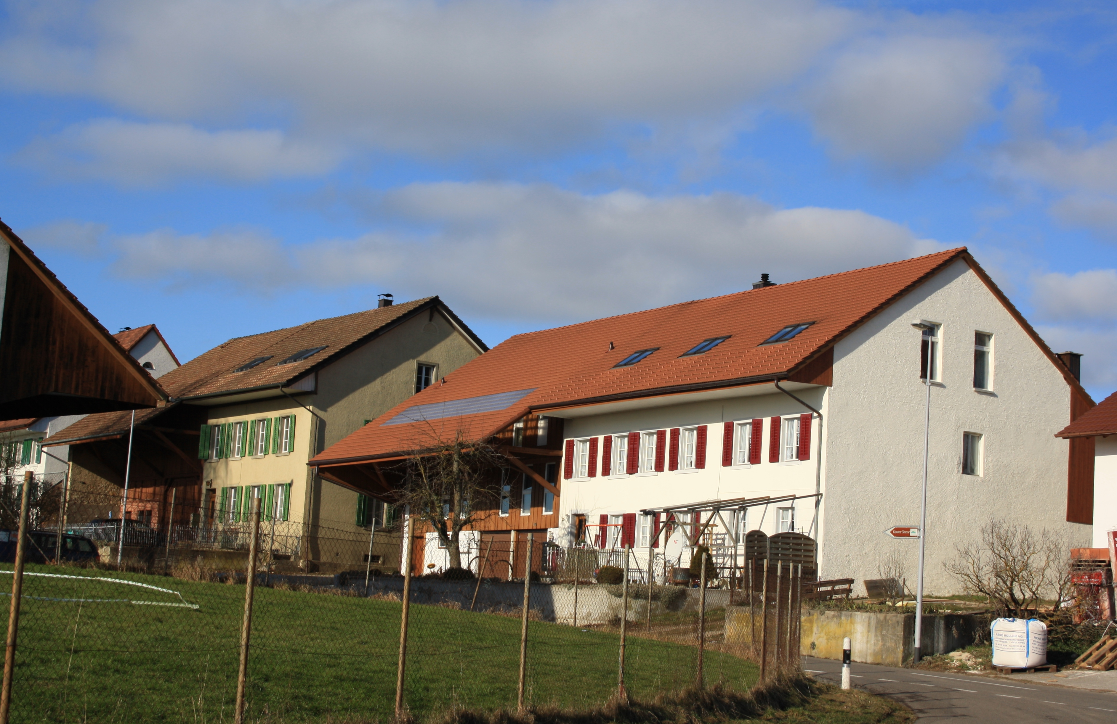 Oberbözberg